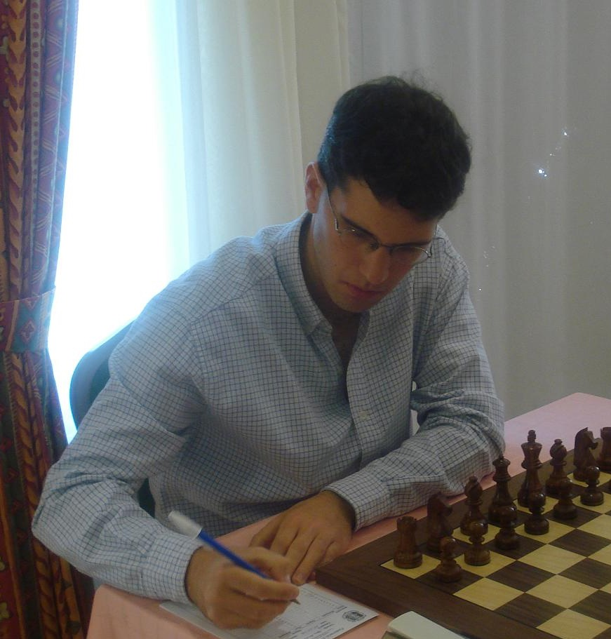 GM Pablo Lafuente Argentina, XXVI Open Internacional d'Andorra.